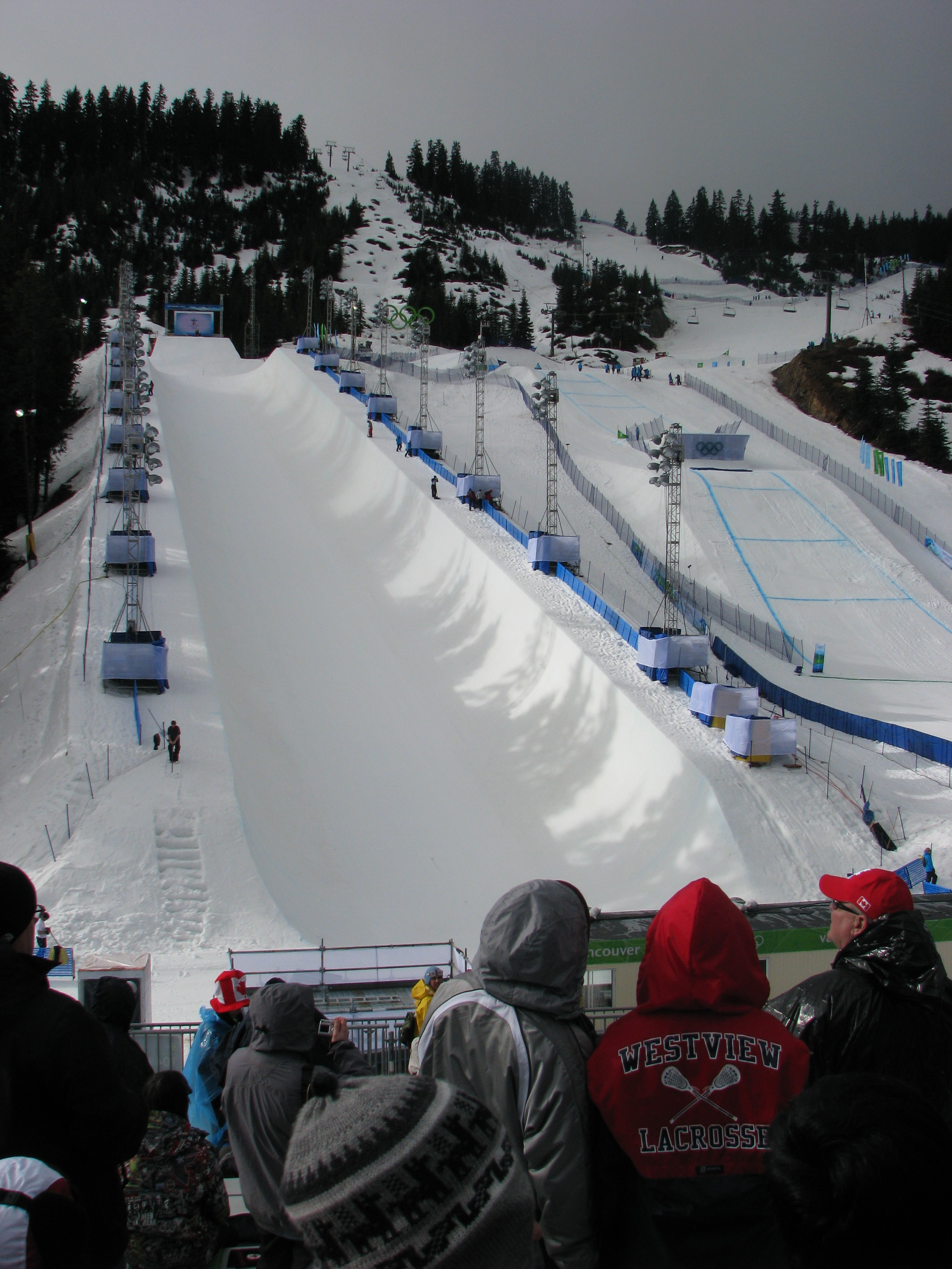 Snowboarding at 2010 Olympic